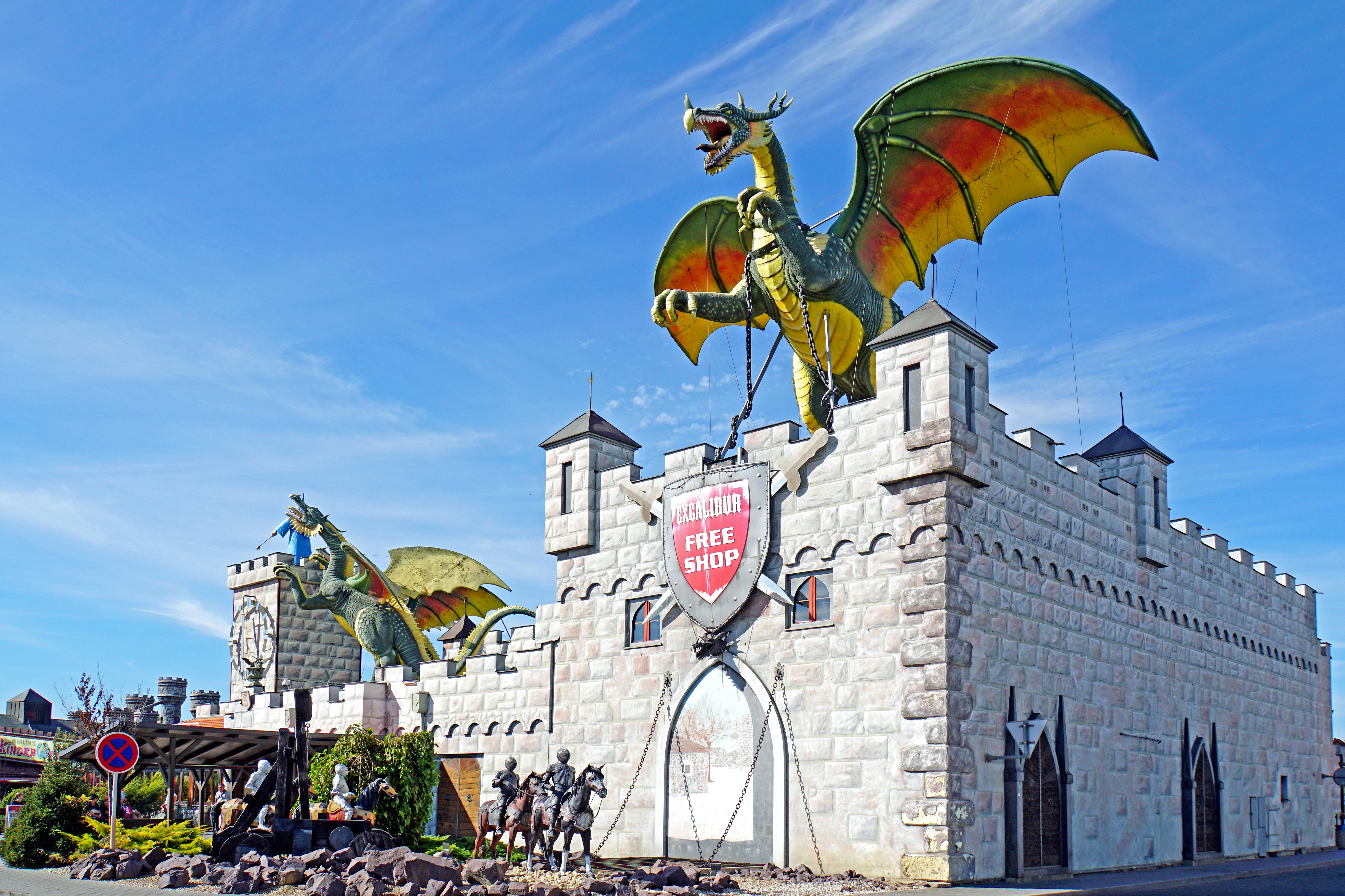 The first stop in the Czech Republic was at this Duty Free place, a castle, amuzement area, plane and so much more.